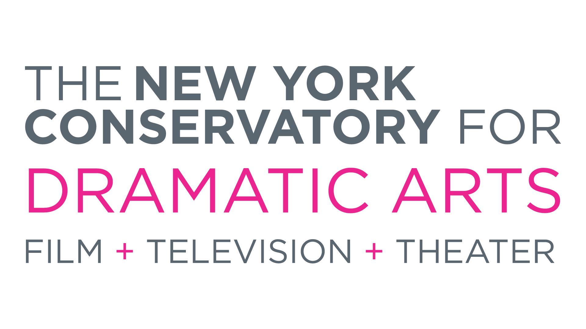 The New York Conservatory's Logo